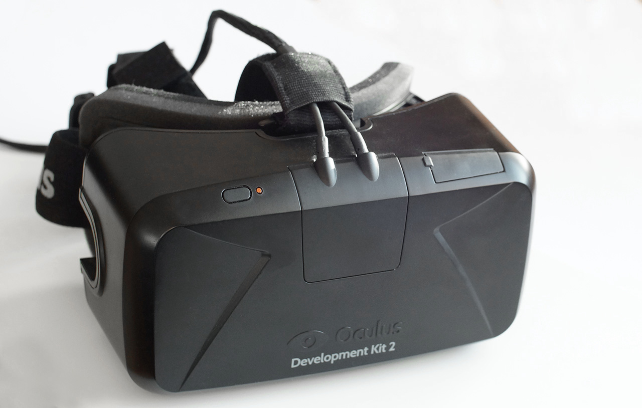 Oculus Rift development kit 2 head-mounted display